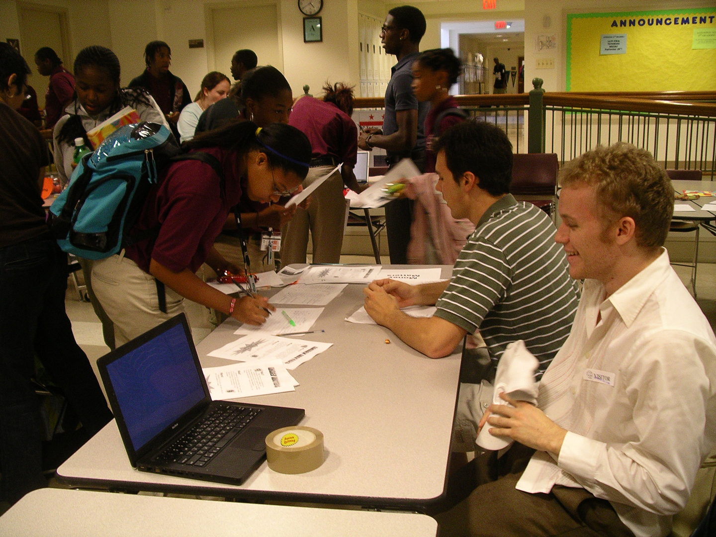 Two Money Matters volunteers from Georgetown University table at Thurgood Marshall Academy in Anacostia, Washington, D.C.